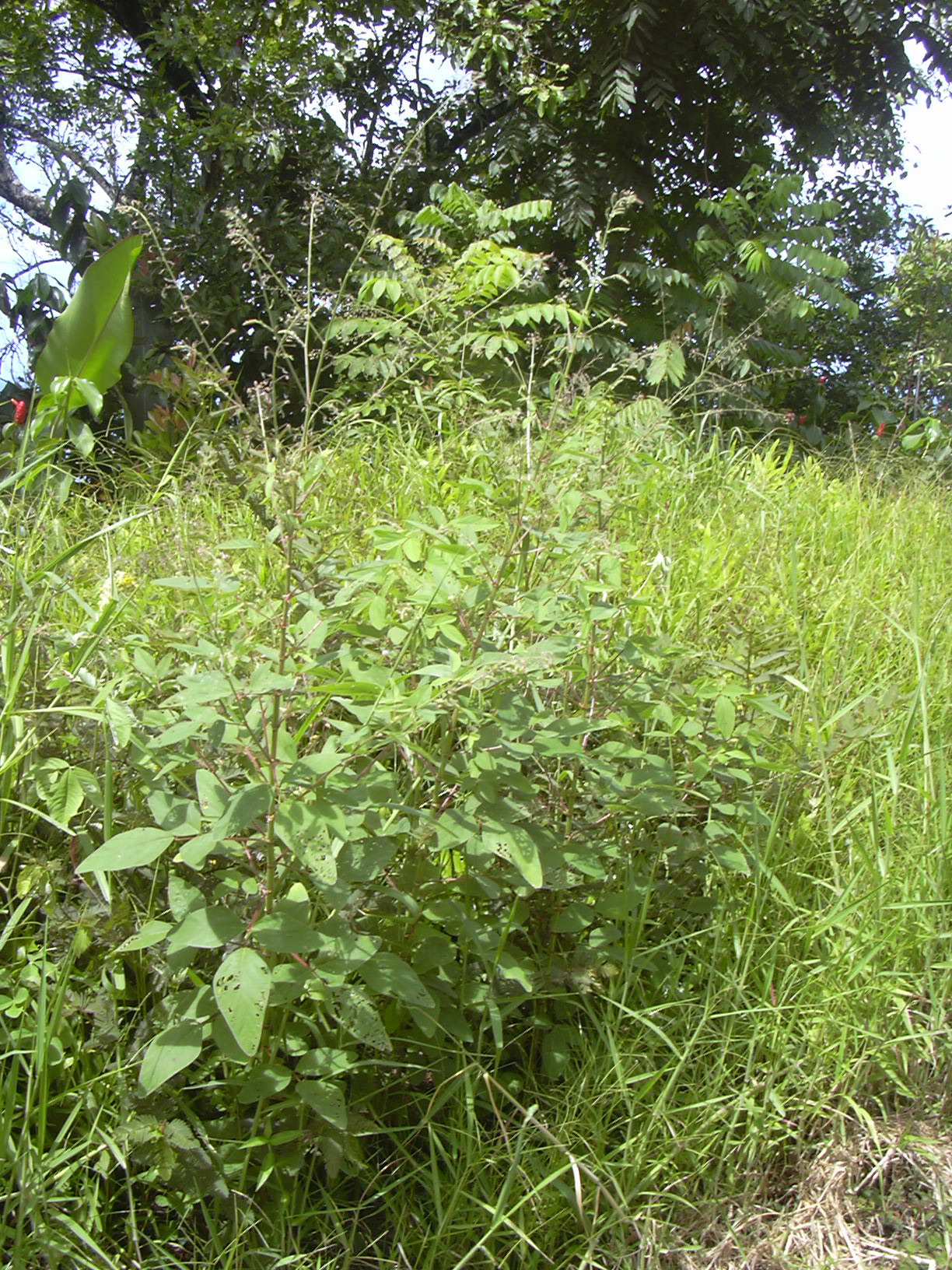 Desmodium tortuosum (habit). Location: Maui, Hana Hwy